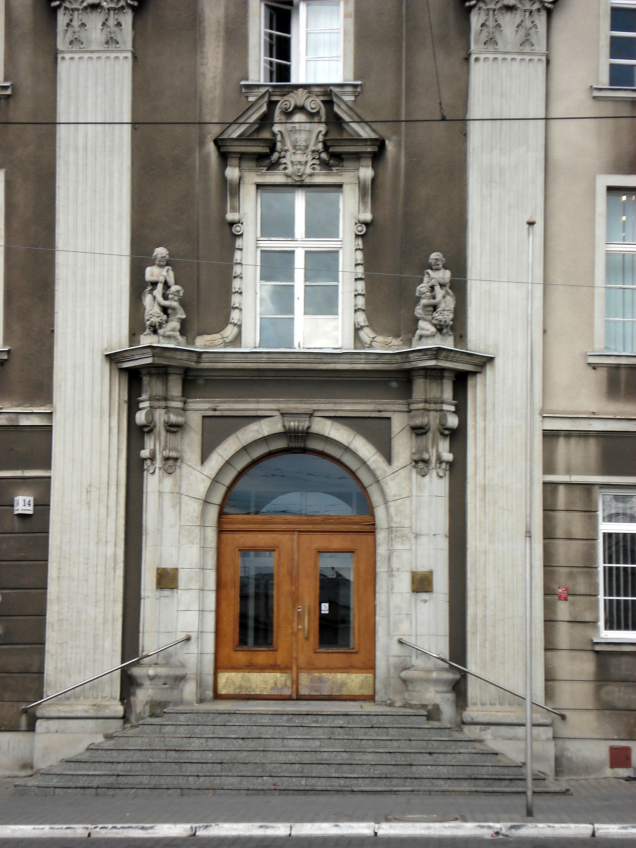 Main entrance to the administrative building of International Poznan Fair (MTP) in Poznań, by Stefan Cybichowski